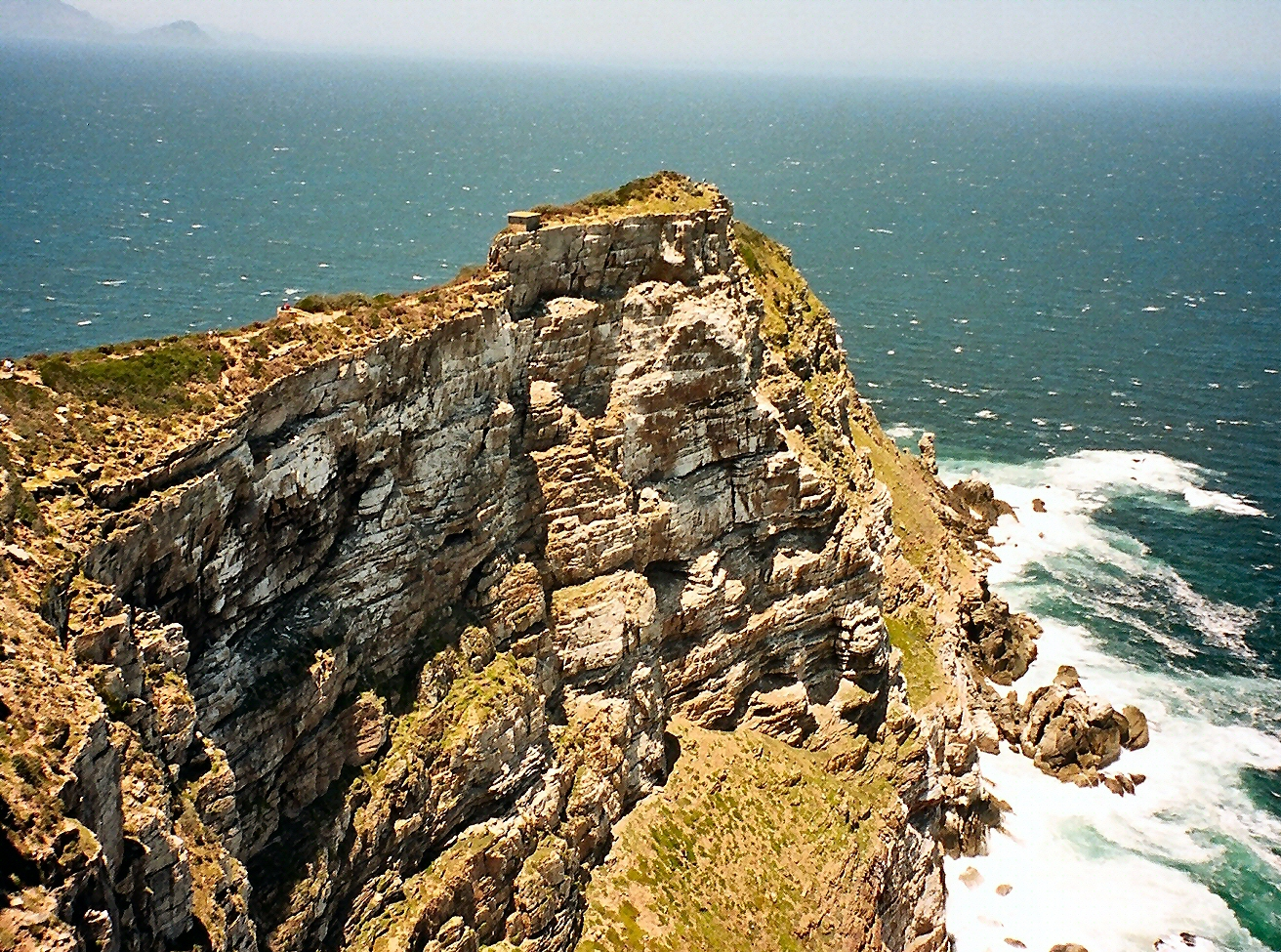 Cape Point Photo by Paddy Briggs